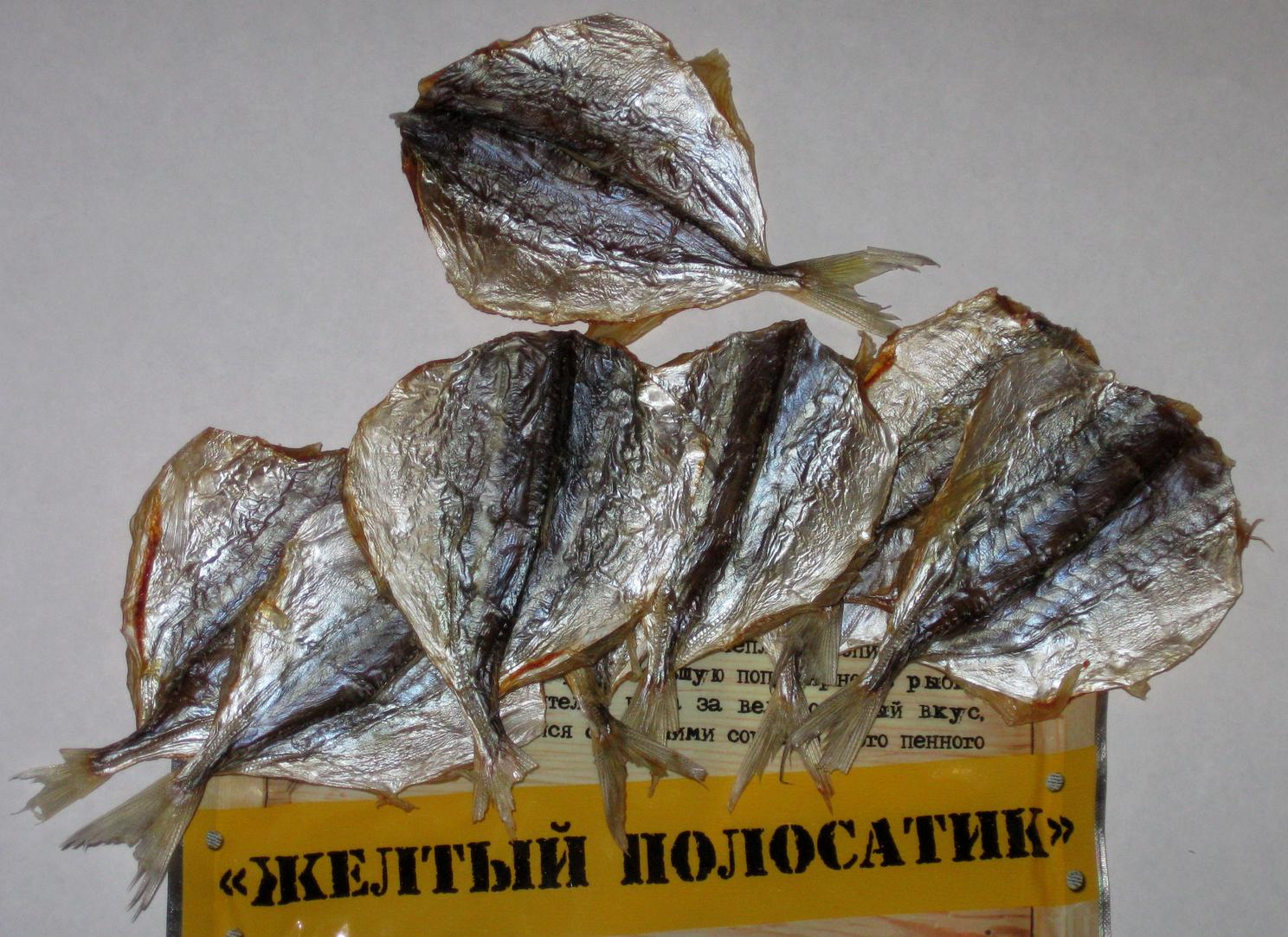 Yellowstripe scad